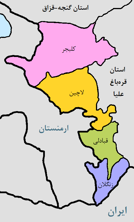 Kalbajar-Lachin Region